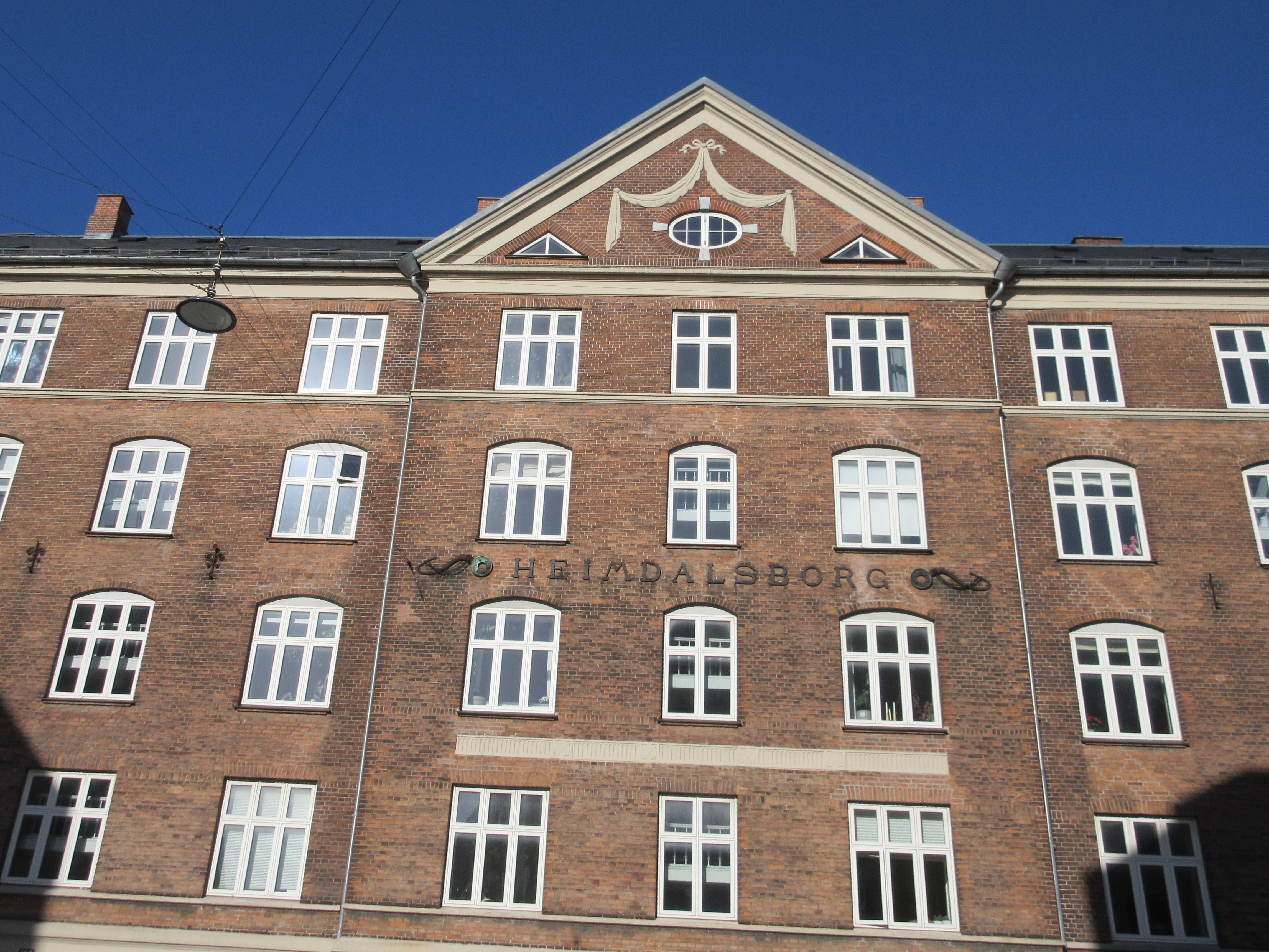 Heimdalsborg on Mimsersgade in Copenhagen, Denmark